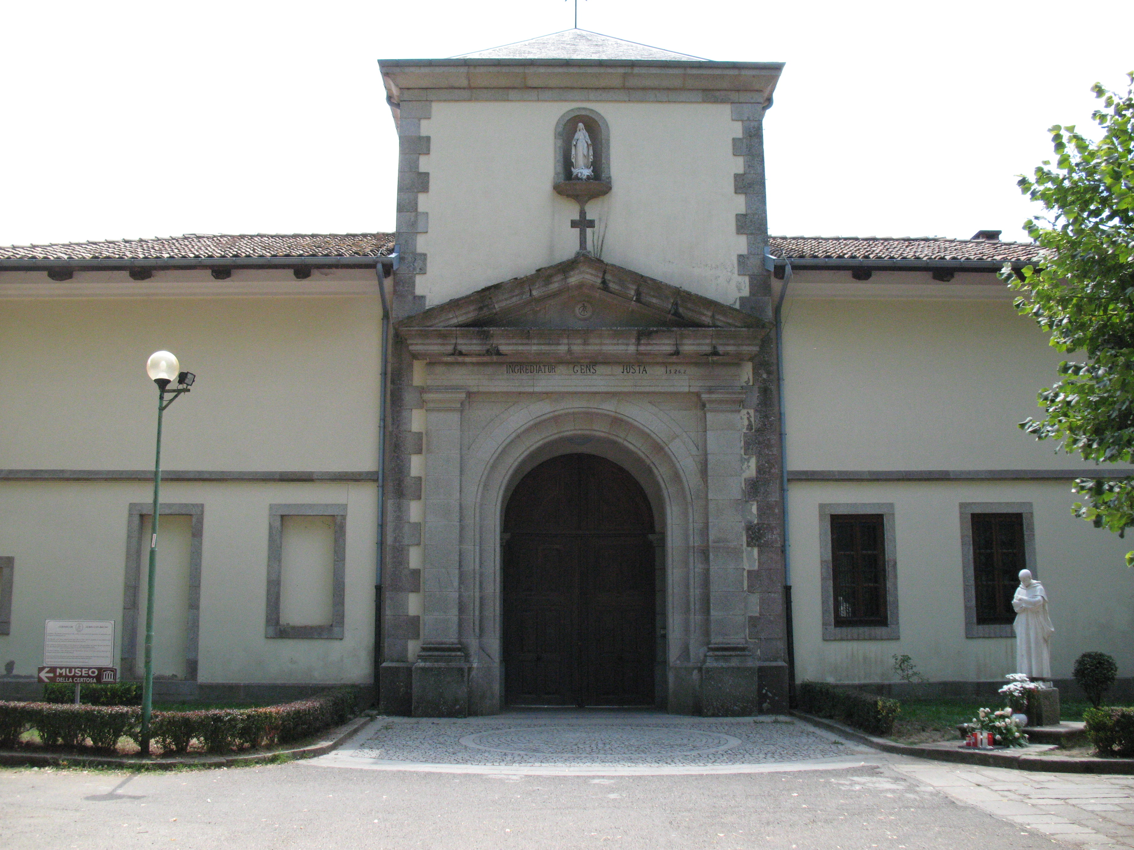 Carthusian of Serra San Bruno, principal portal